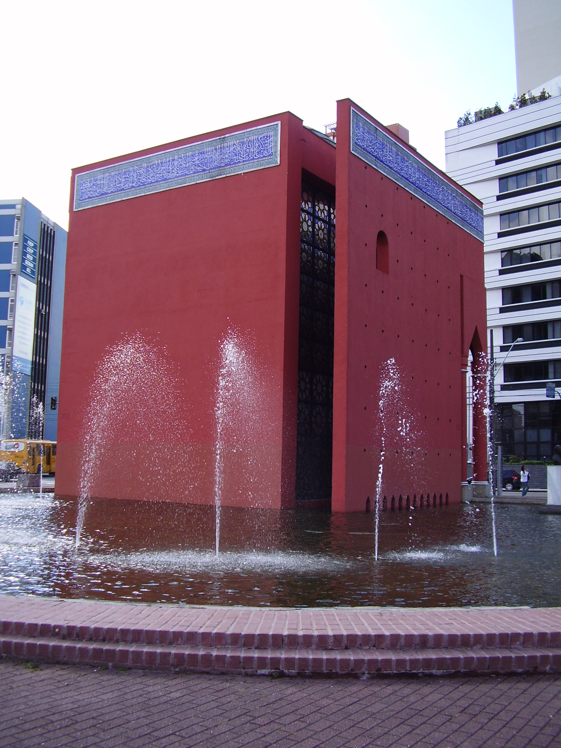 view of 'Arabian Memorial' in Curitiba, Paraná- Brazil